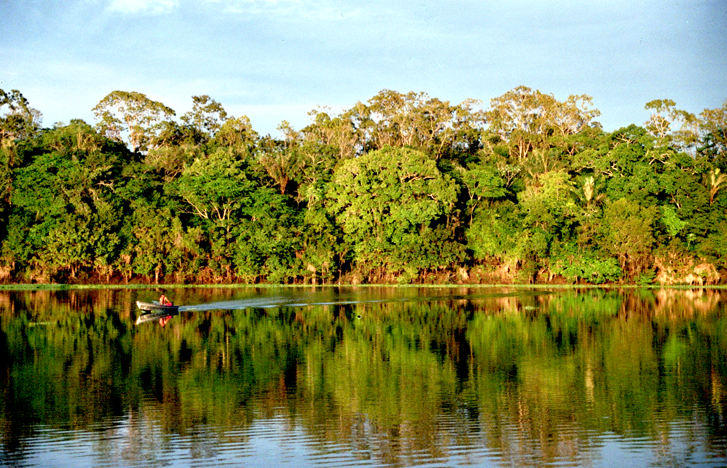 Image of the Amazon rainforest in the Urubu river, near the municipality of Silves, Amazonas State, Brazil.